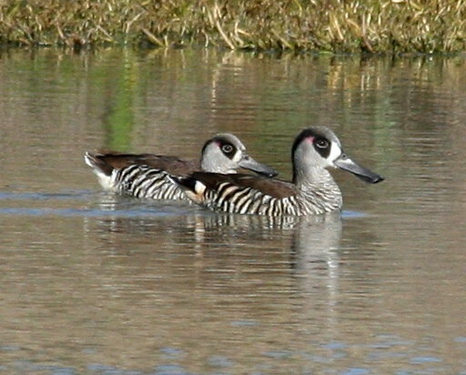 Pink Eared Duck